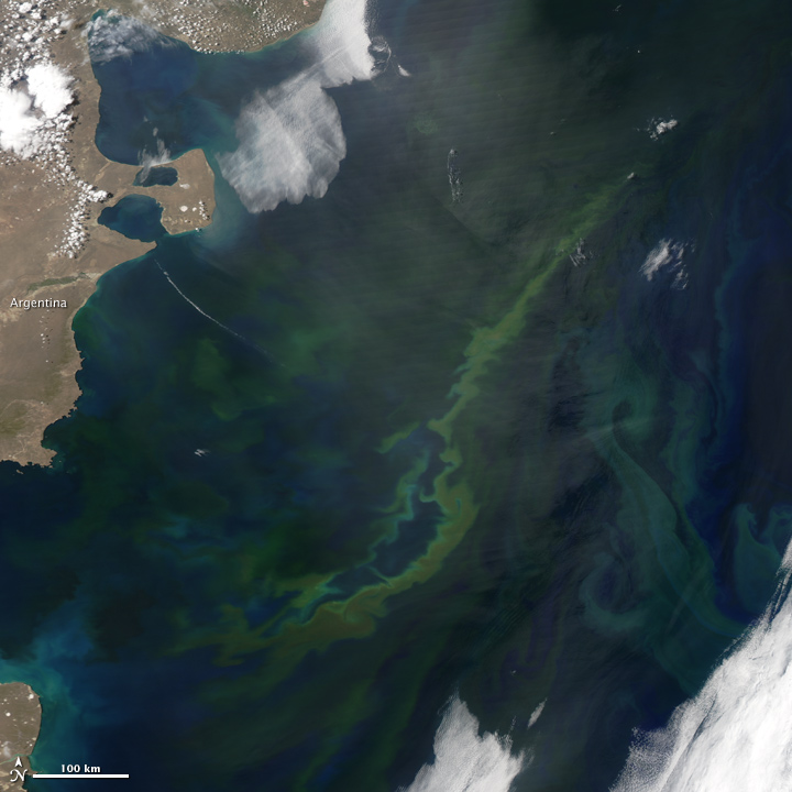 To download the full resolution and other files go to: On a sunny spring day in November 2011, the clouds parted over coastal Argentina to reveal a massive bloom of phytoplankton coloring the ocean. Phytoplankton are microscopic, plant-like organisms that harness sunlight to turn carbon dioxide and water into sugars and oxygen (photosynthesis). They are the primary producers of the ocean and the center of the marine food web, providing food for everything from zooplankton to whales. The Moderate Resolution Imaging Spectroradiometer (MODIS) on NASA’s Aqua satellite captured this natural-color image on November 5, 2011. The milky blue and green swirls are evidence of the abundant growth of phytoplankton across hundreds of kilometers of the sea. These organisms contain pigments (such as chlorophyll) that appear in varying shades of blues, greens, and reds depending on the species. The phytoplankton in the image are likely a blend of diatoms, dinoflagellates, and coccolithophores. Blooms of diatoms and dinoflagellates are more common in the spring, while coccolithophores tend to dominate in early summer. The blooms develop frequently in southern spring and summer at an intersection of two great current systems. The warm salty waters of the subtropical Brazil Current flow south and mix with colder, fresher waters that originate in the Southern Ocean and get carried northward by the Malvinas Current. Several major rivers, including the Rio de la Plata, carry nitrogen and iron-rich sediment from the continent into the sea, providing the nutrients needed for plant growth.